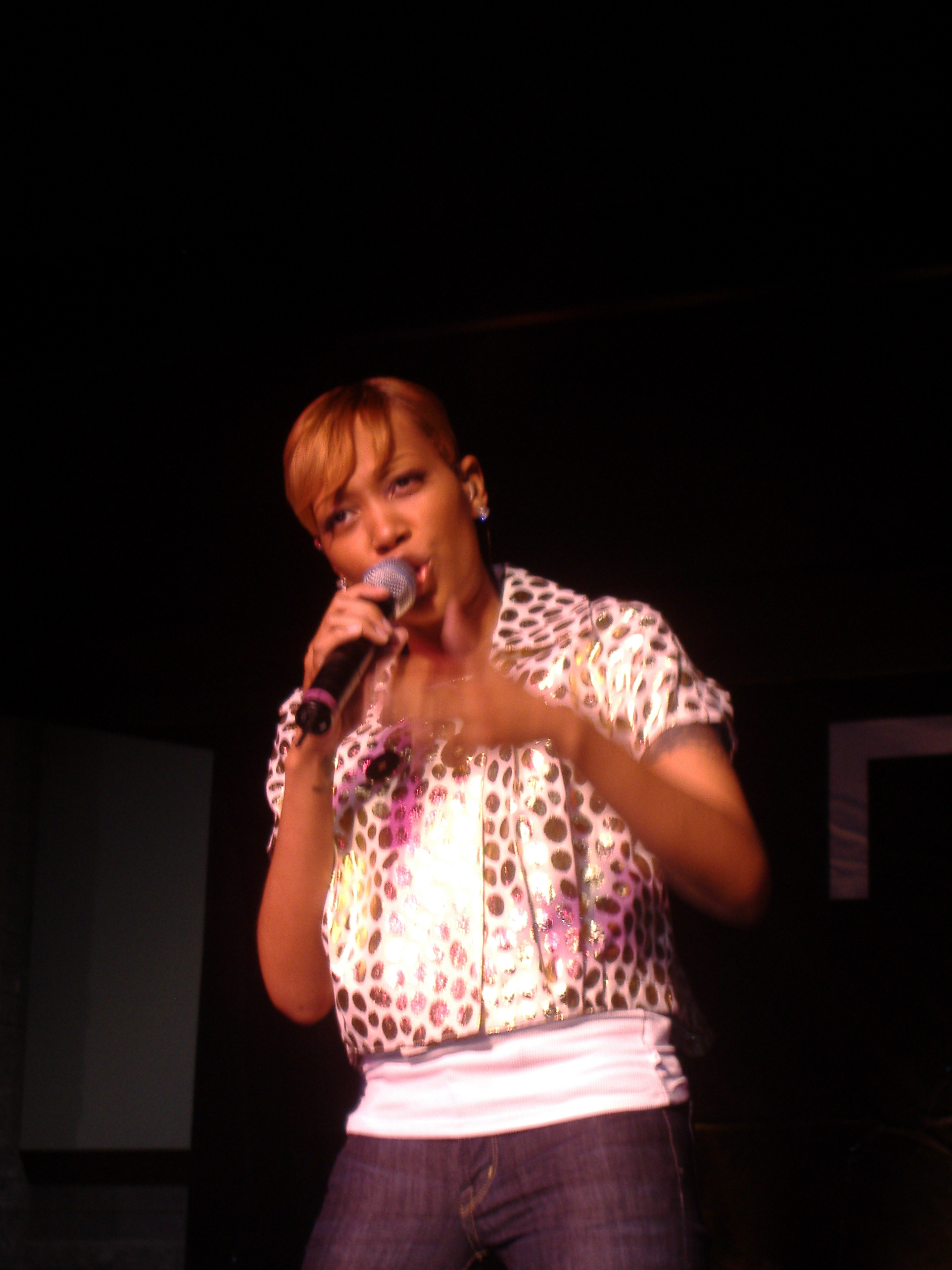 Monica Arnold performs DC Black Pride 2007